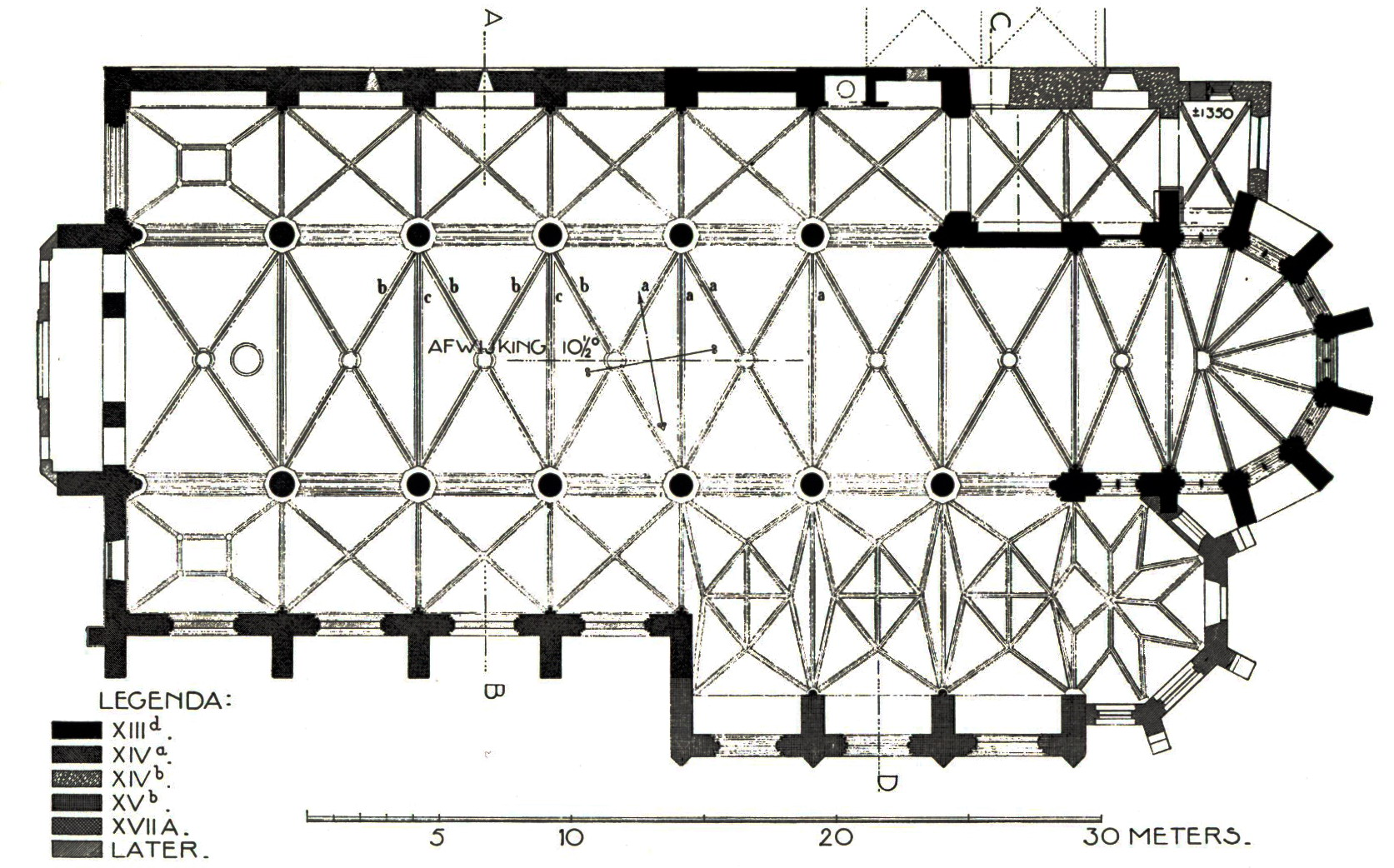 Maastricht, the Netherlands. Floorplan of the Dominican church. Drawing by the architect Adolph Mulder, 1895.